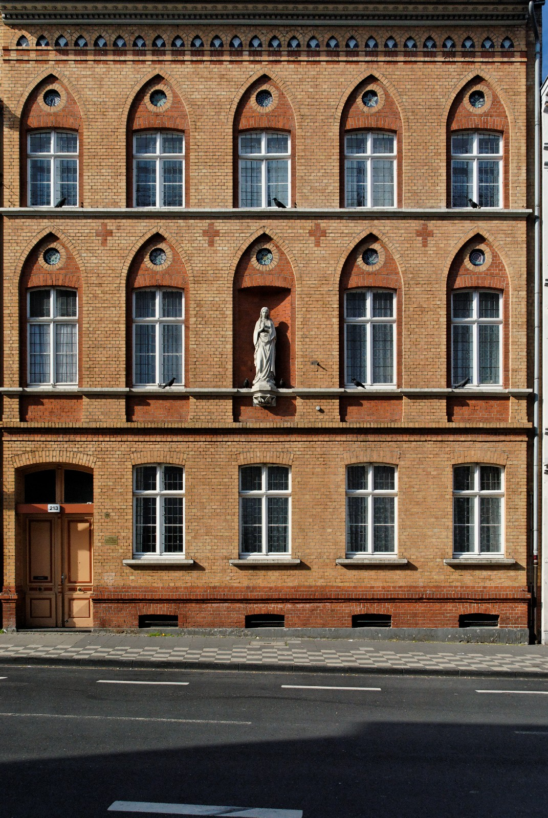 Russian Orthodox Church in Düsseldorf-Oberbilk, Germany